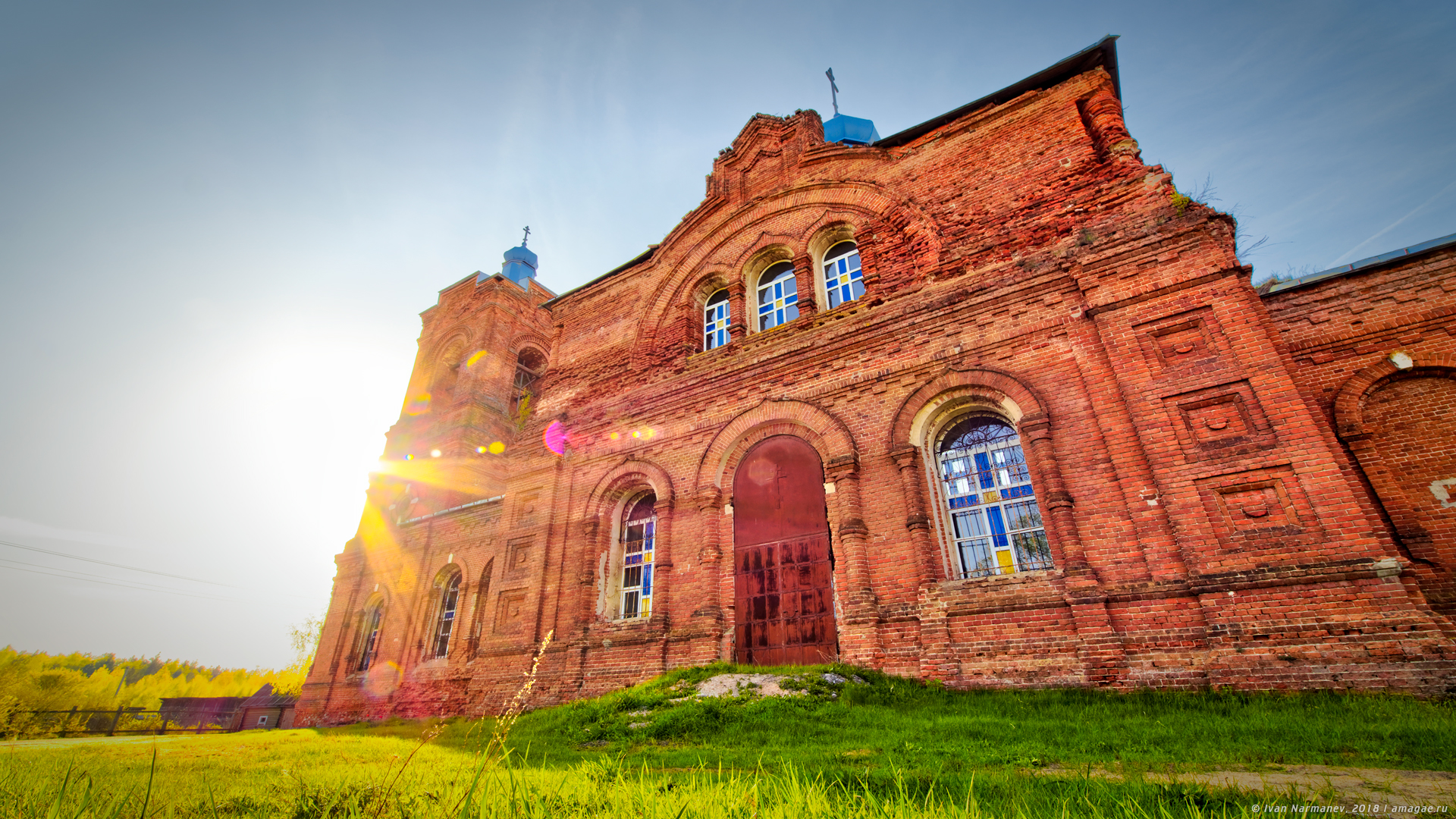 Zaputnoye village church